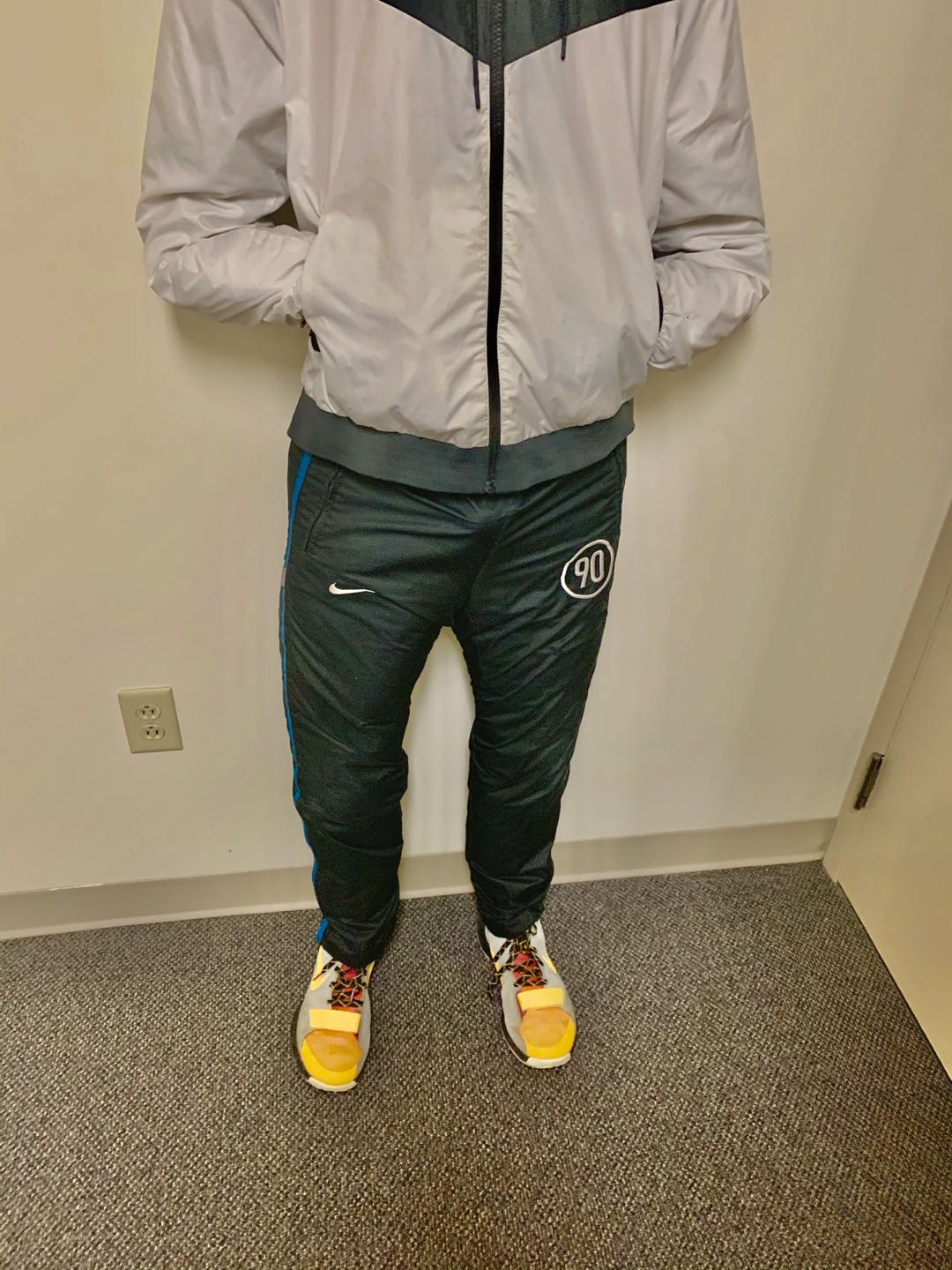 standing man in sportwear